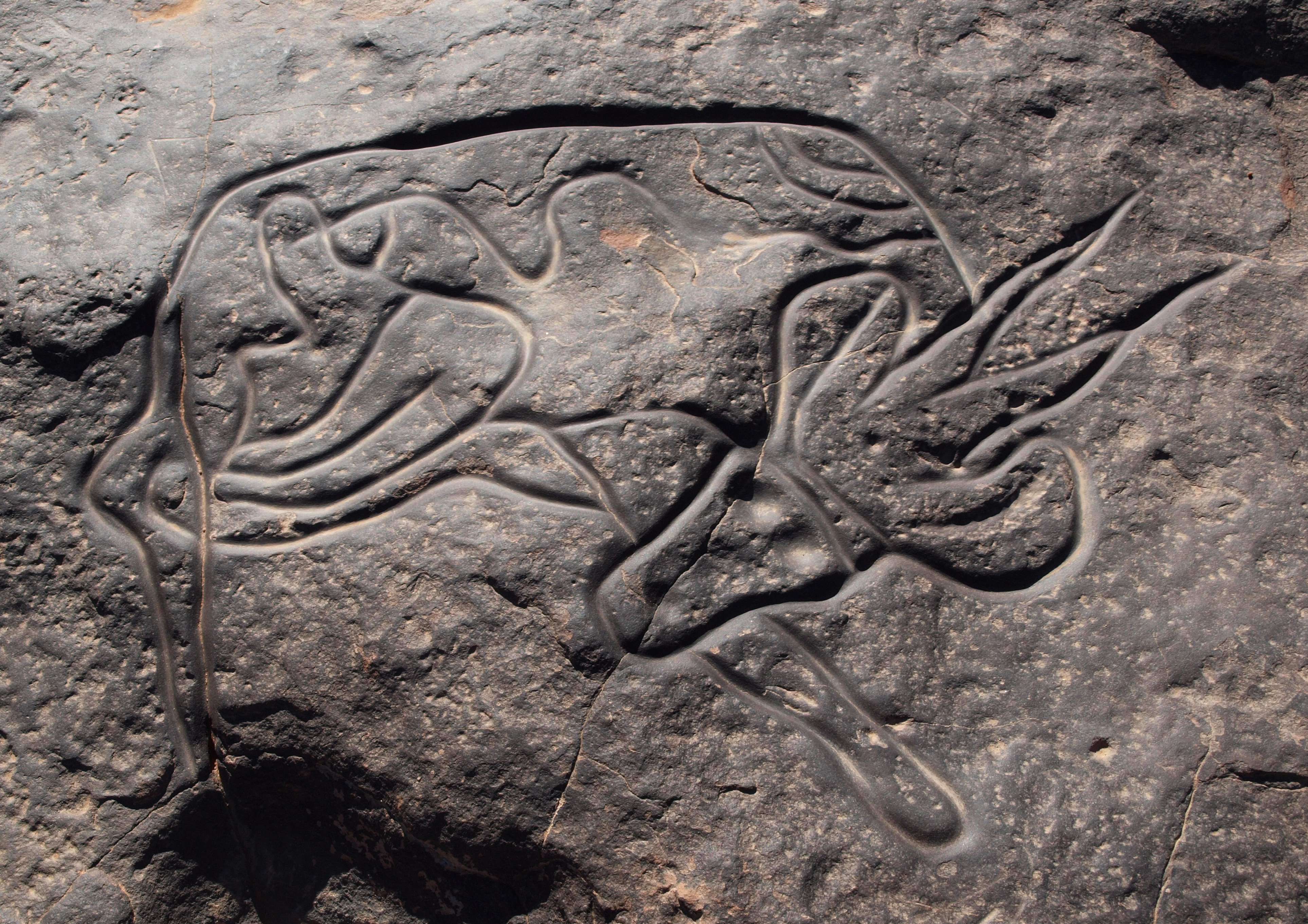 Petroglyph depicting a possibly sleeping antelope, located at Tin Taghirt on the Tassili n’Ajjer in southern Algeria.